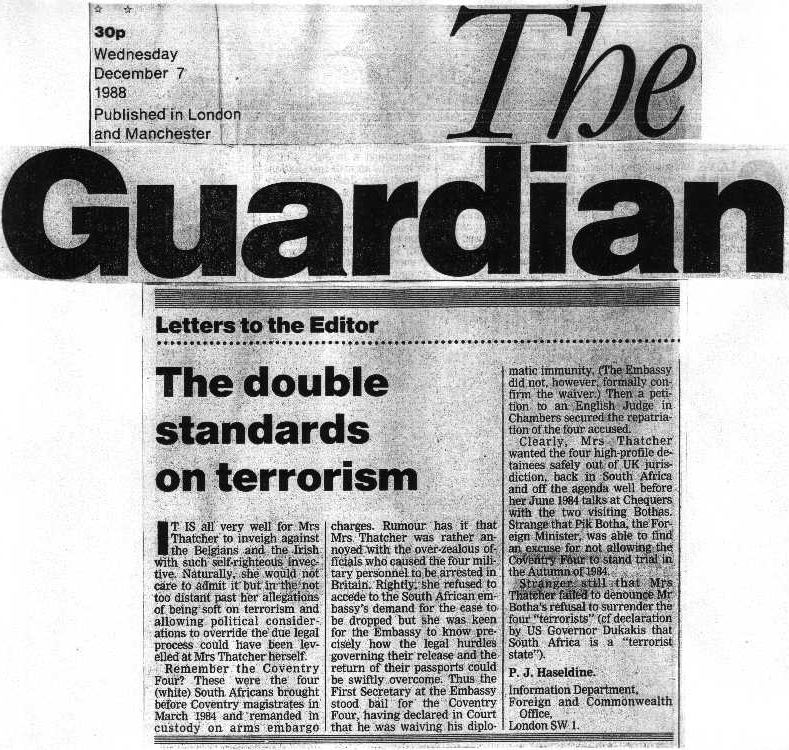 On 5 December 1988, using FCO-headed notepaper, I typed a letter and mailed it to The Guardian newspaper (see Image:PatrickHaseldine3A). On 6 December 1988, journalist Richard Norton-Taylor telephoned me at the FCO to confirm that I wished the letter to be published. On 7 December 1988, Mr Norton-Taylor wrote a front page article entitled FO official calls Thatcher stance 'self-righteous and The Guardian published the letter under the heading The double standards on terrorism on page 22. A year later, my second letter entitled Finger of suspicion was published in the The Guardian on 7 December 1989 (see Image:PatrickHaseldine3B). —PJHaseldine (talk) 09:59, 10 June 2008 (UTC)